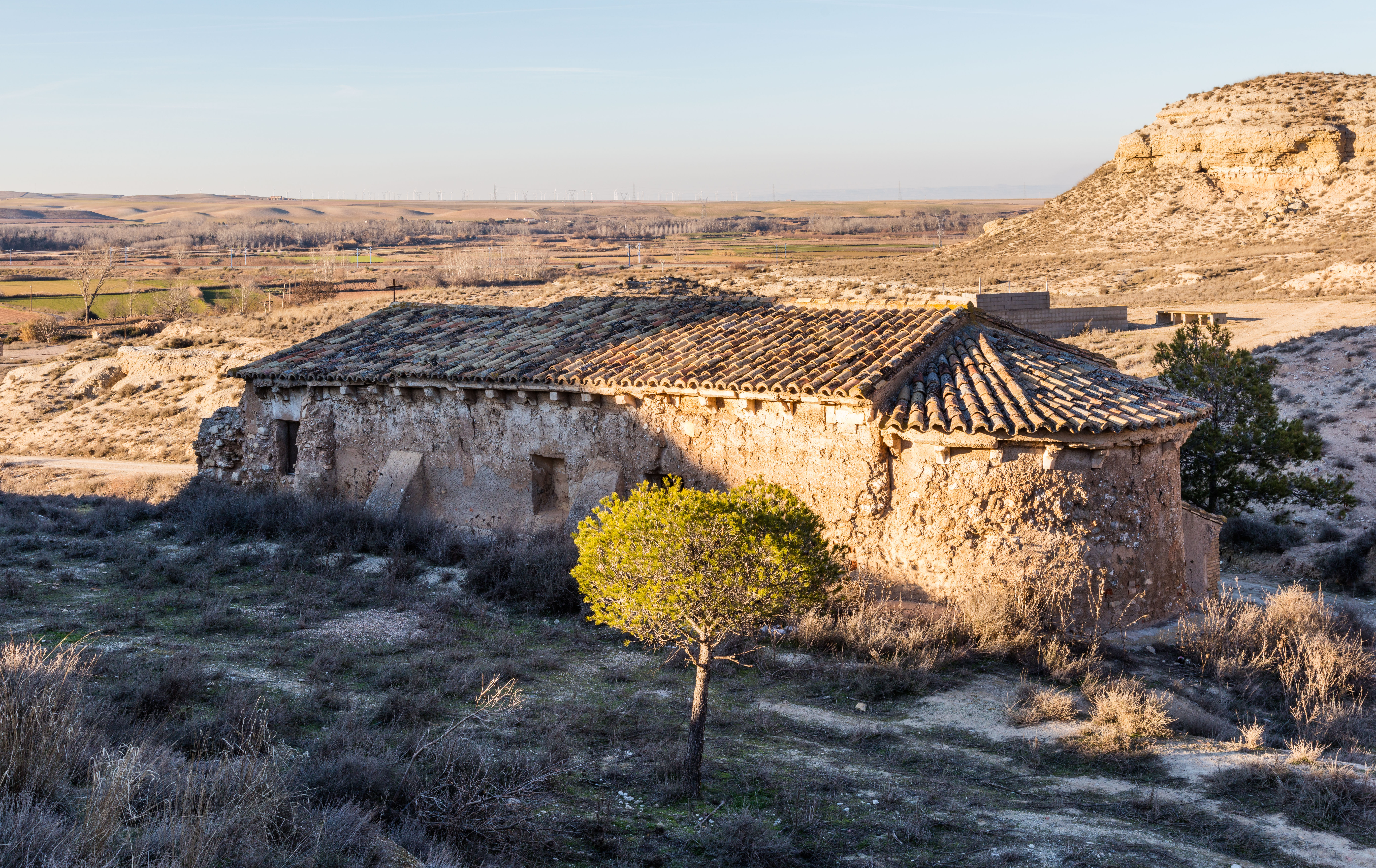 Hermitage of San Bartolomé, Bardallur, Zaragoza, Spain